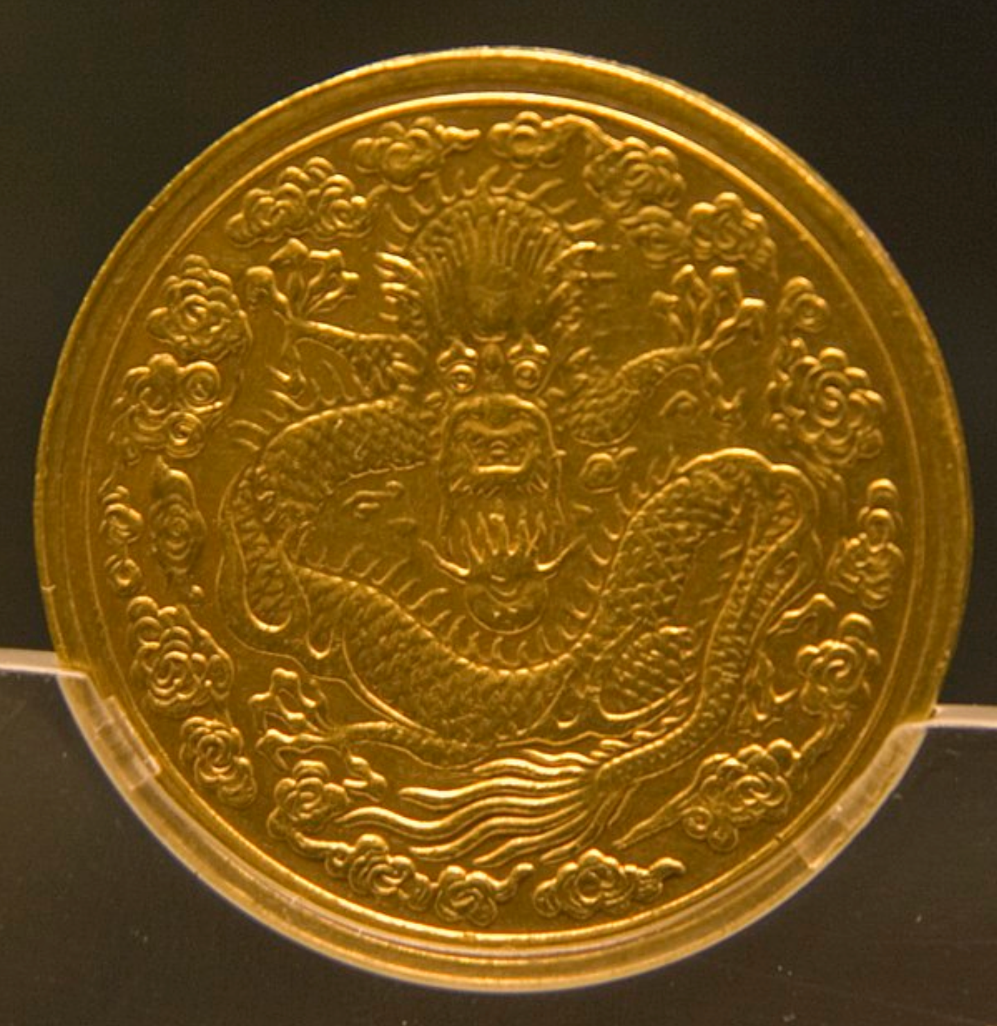 The reverse of a golden coin issued during the reign of the Guangxu Emperor of the Manchu Qing Dynasty.